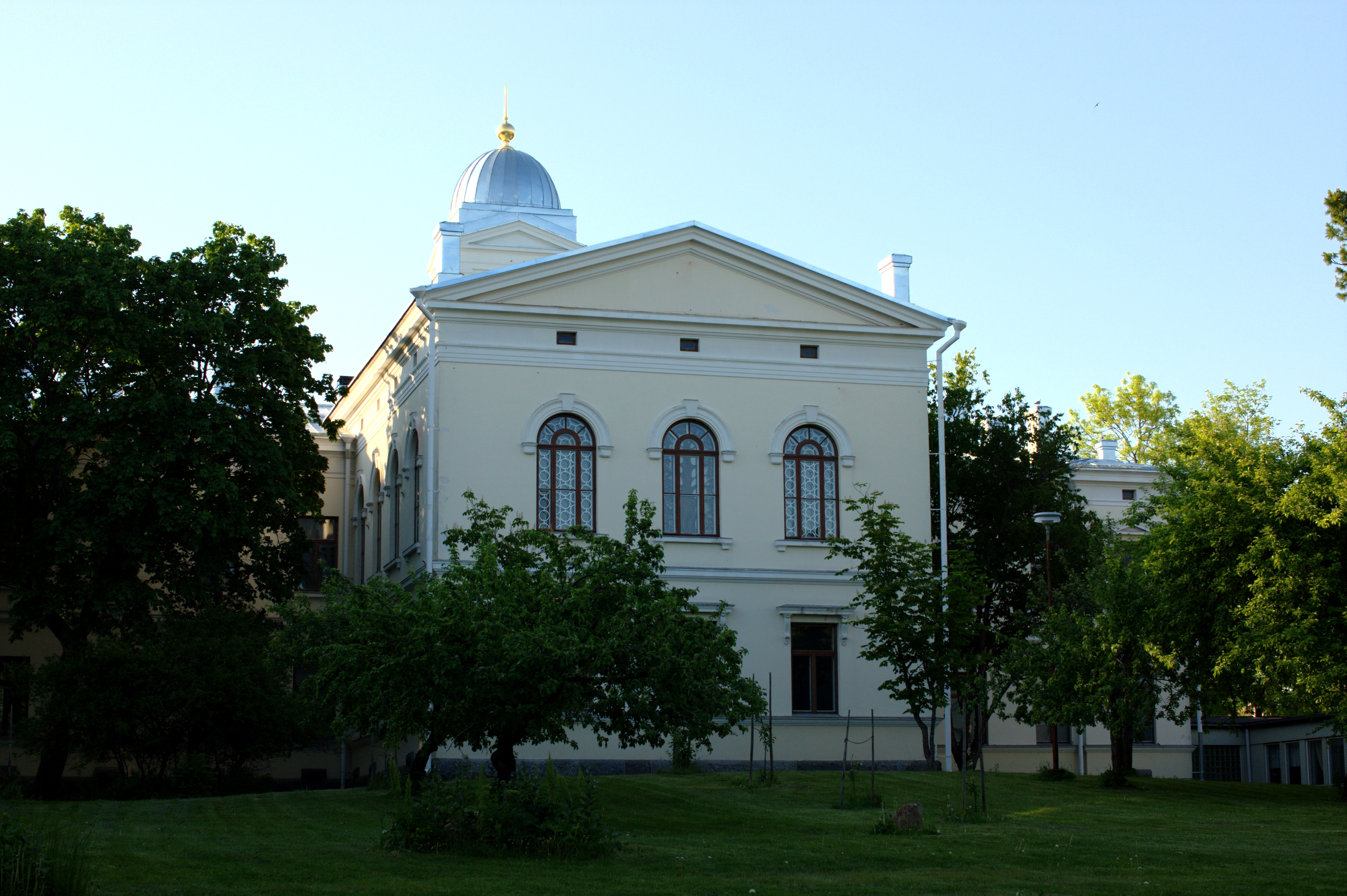 The church of Pitkäniemi hospital in Nokia, Finland.